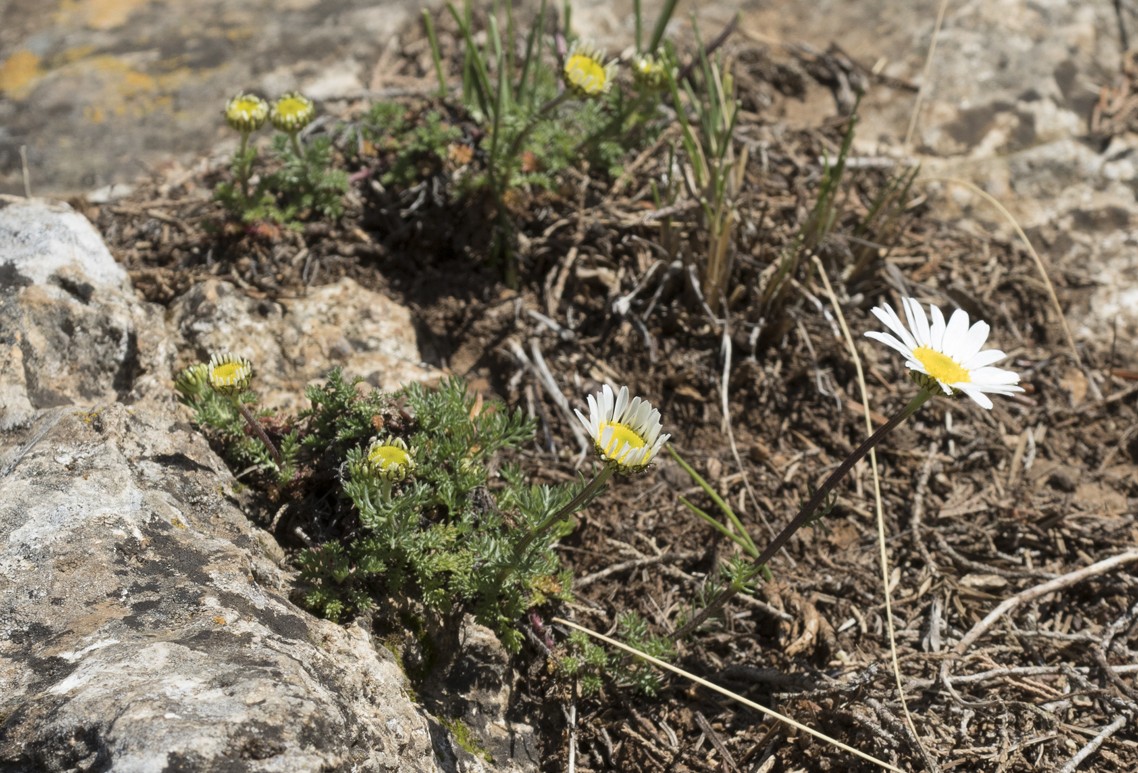 Tripleurospermum oreades flowers. Saksağan Crossing in Saimbeyli - Adana, Turkey.